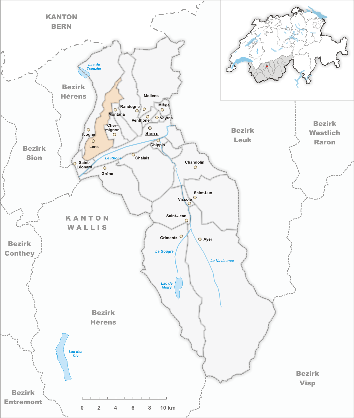 Municipality Lens